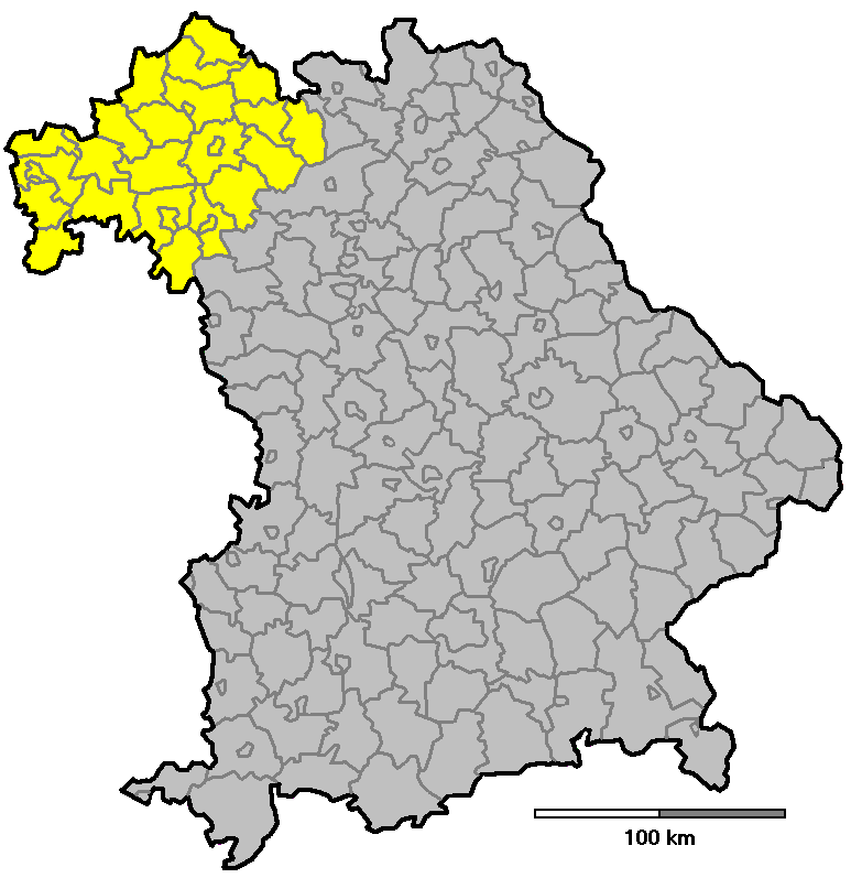 locator map of the former (1970) districts (Landkreise) in Bavaria, Germany